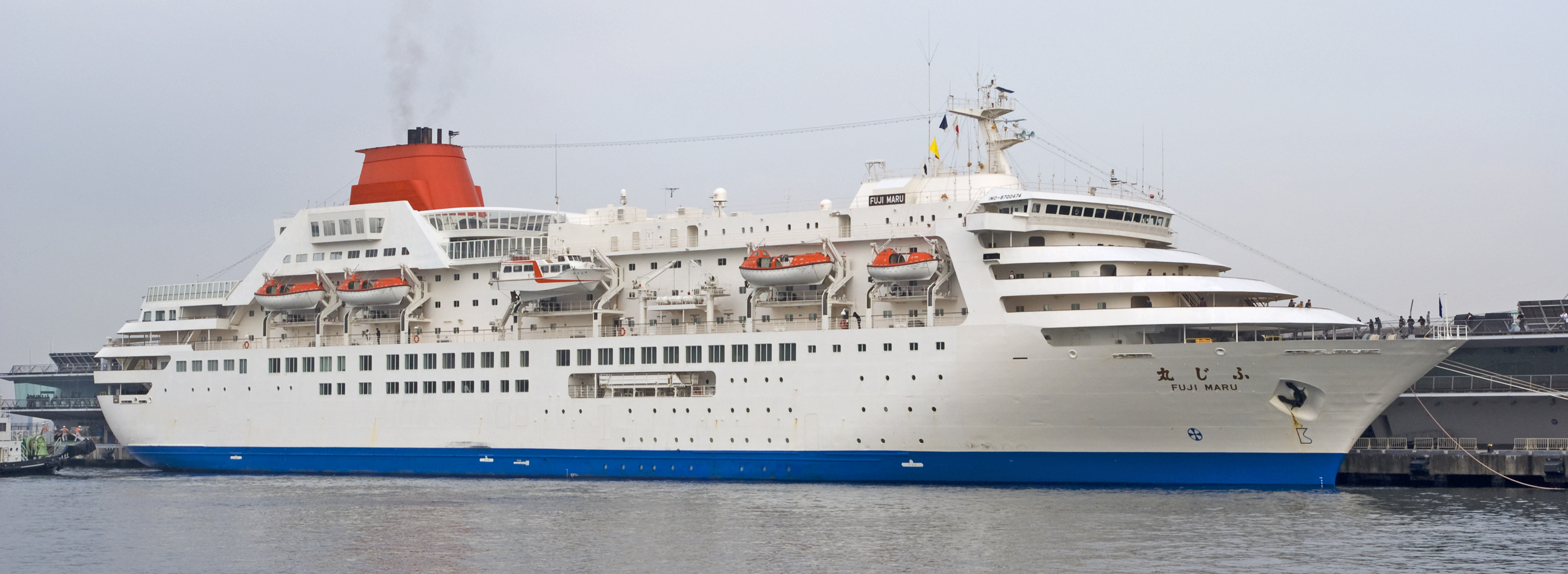 Fuji Maru stopping at Osanbashi Yokohama International Passenger Teminal. Good Design Award 1990.